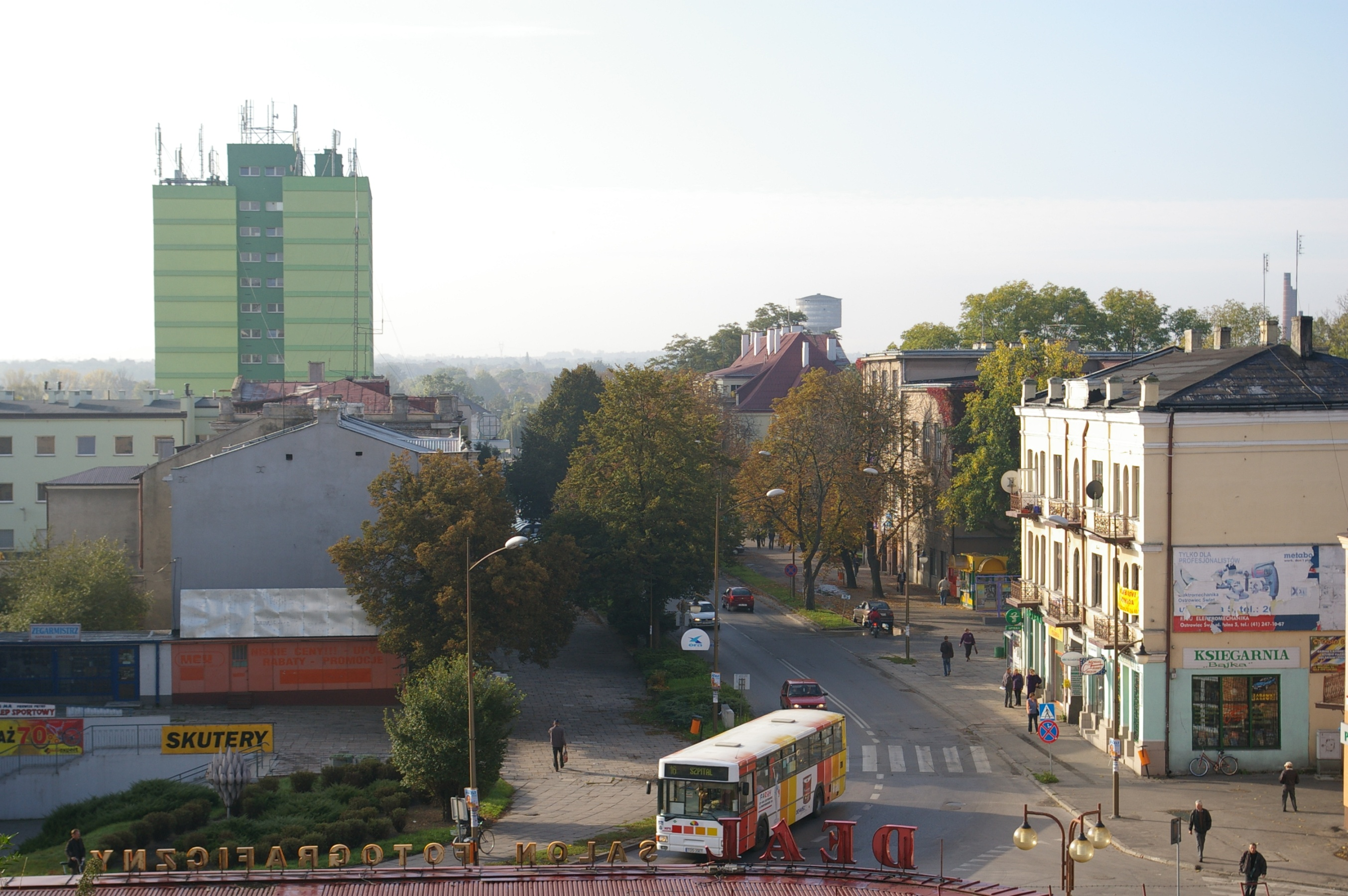 Jelcz 120M/2 bus (#205) in Ostrowiec Świętokrzyski, Poland. Built 1999, MPK Ostrowiec Świętokrzyski operator.